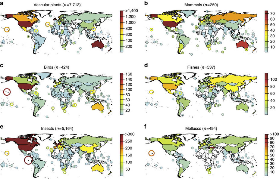 Number of first records of established alien species per region (mainlands and islands) for major taxonomic groups. (a–f) Colour and size of circles indicate the number of first records of established alien species. Circles denote first records on small islands and archipelagos otherwise not visible. The world maps were created using the ‘maptools’ package(Bivand, R. & Lewin-Koh, N. maptools: Tools for Reading and Handling Spatial Objects 0.8-39 R Foundation for Statistical Computing, Vienna (2016).)4 of the open source software R (R Development Core Team. R: A Language and Environment for Statistical Computing Available at Foundation for Statistical Computing, Vienna (2015).